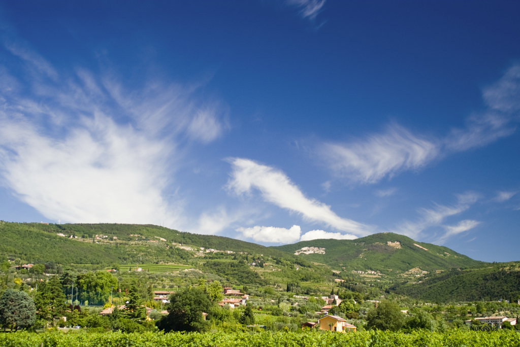 Vineyards in the Italian wine region of Valpolicella in the Veneto. The hillsides of Monti Lessini are in the background.